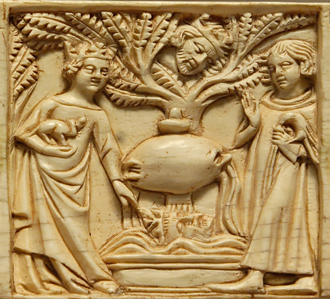 Tristan and Iseult at the fountain, King Mark spying upon them, detail from a casket panel. Ivory, Paris, 1340–1350.